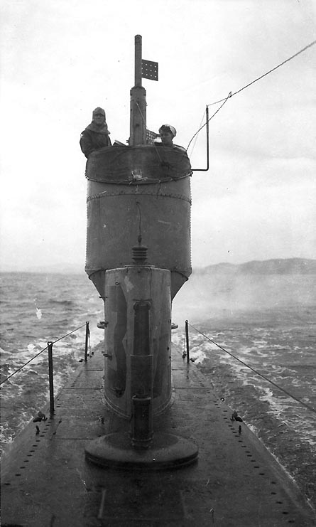 USS L-3 (Submarine # 42) View on deck, looking aft toward the fairwater, while the submarine was underway off Berehaven, Ireland, in 1918. Note L-3's 3"/23 deck gun in retracted position just forward of the fairwater. Original caption: “Photo # NH 63176 Fairwater of USS L-3, 1918” — removed caption